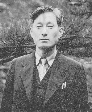 Kim Chyon-hae